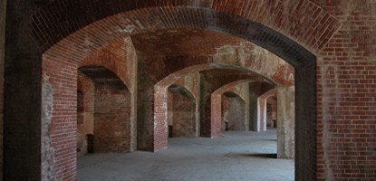 Interior view of U.S. Fort Massachusetts on West Ship Island (Mississippi). The floor has been paved for tours.